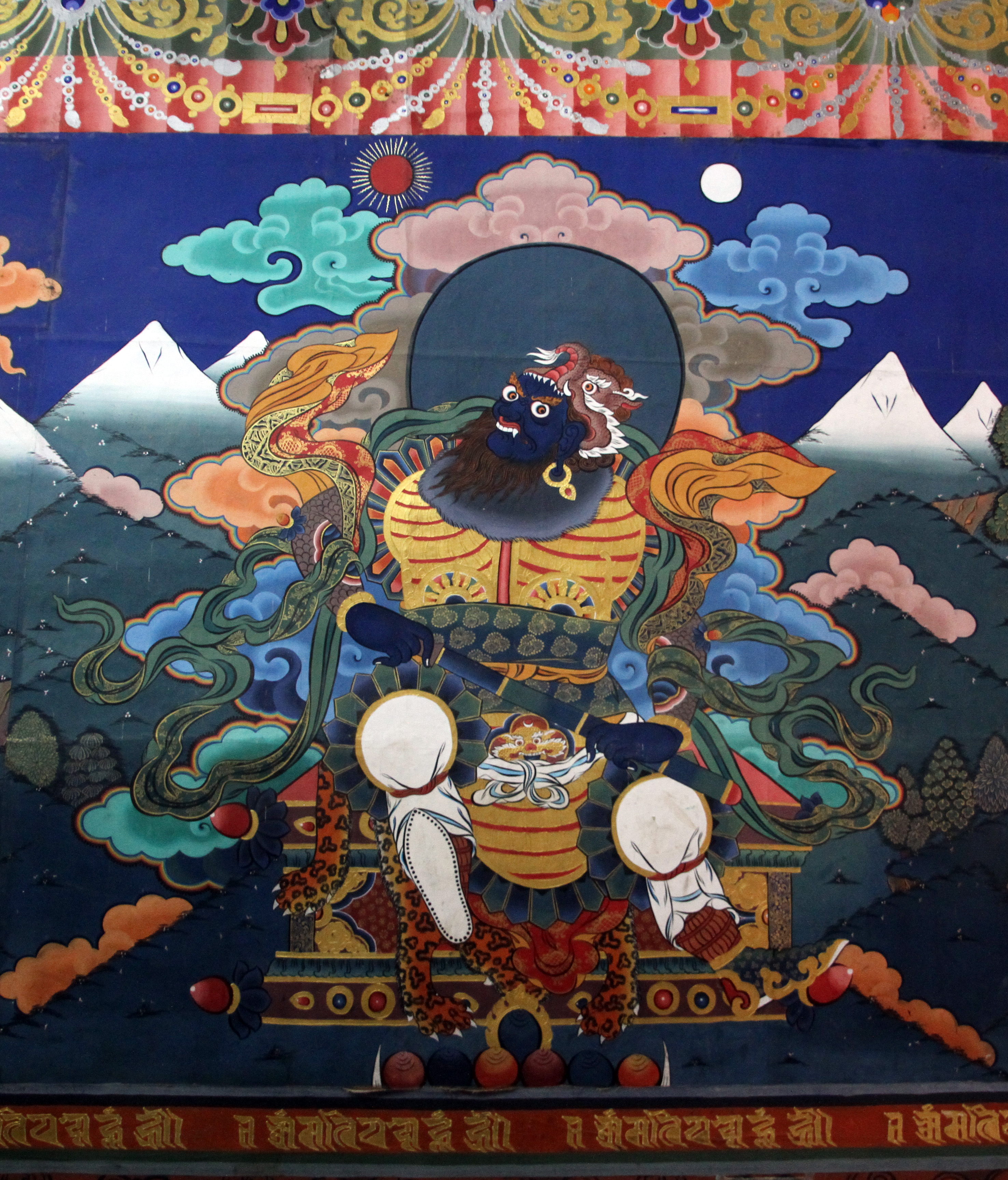 Painting in the Dzong of Paro, Bhutan.